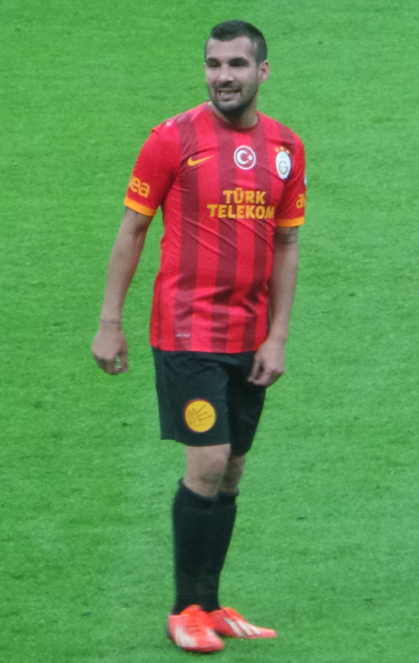 Engin baytar'13-14